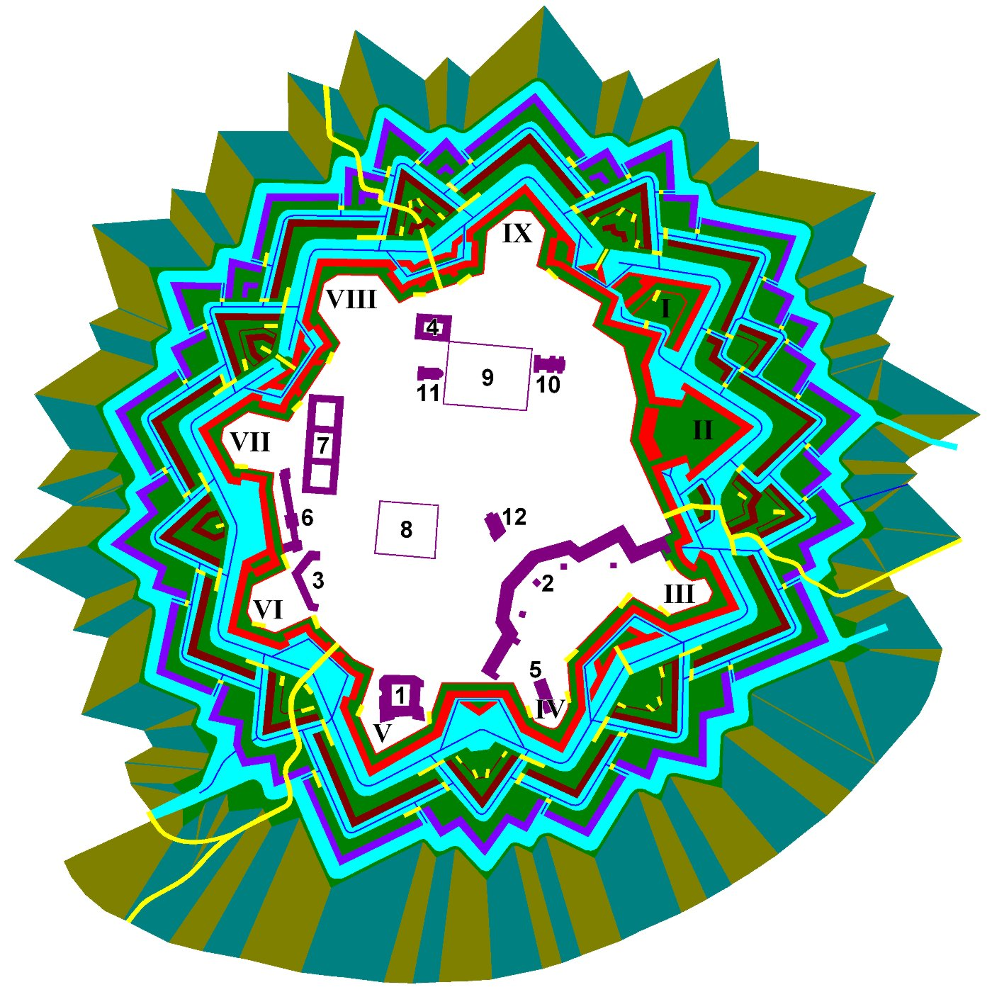 The fortifications of Timișoara fortress in 1808